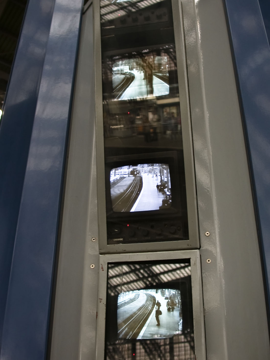 CCTV screens on a platform at the central station, Cologne, Germany